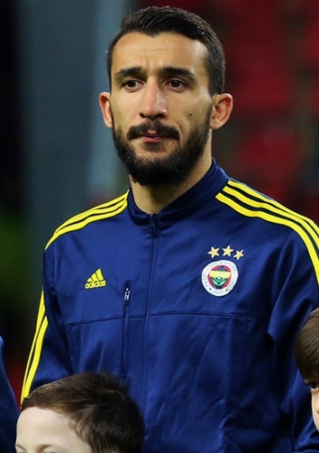 Mehmet Topal